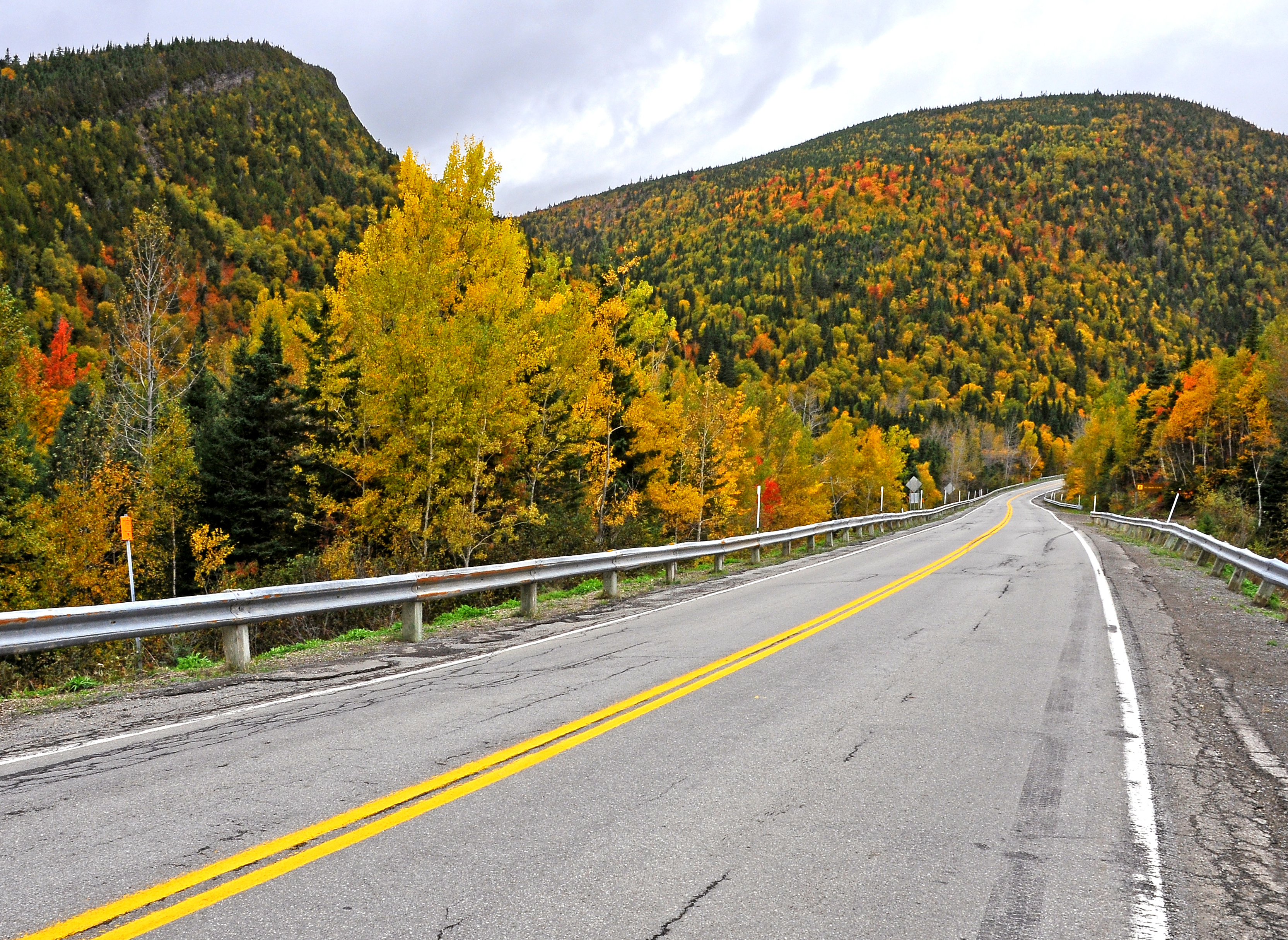 The route 132 across Forillon National Park. Gaspésie, Quebec, Canada